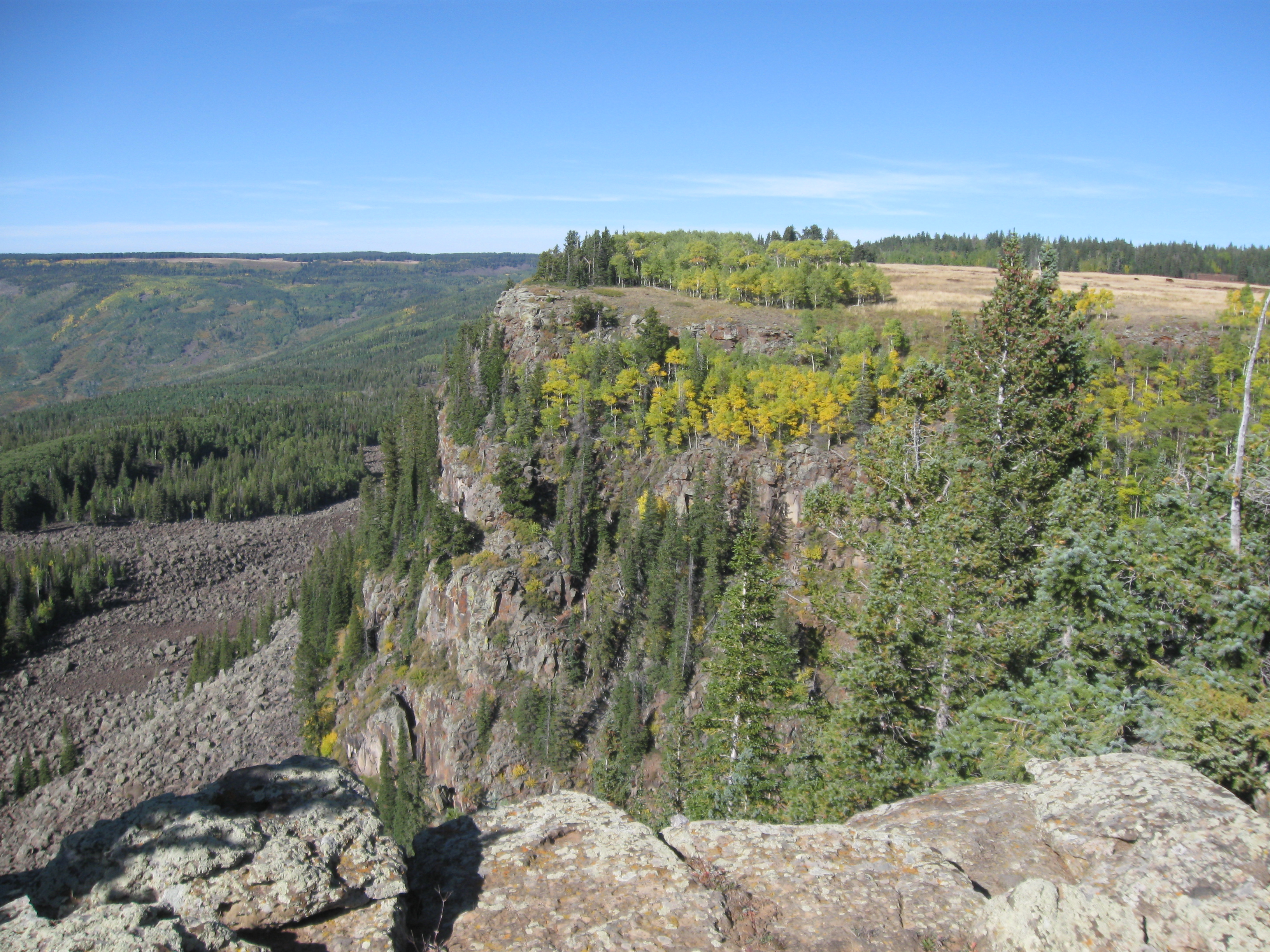 This is the edge of Grand Mesa, Colorado, a large mountain in the western United States.The mountain's flat top abruptly ends at these cliffs, which plunge several hundred feet downwards towards the forests below.These cliffs completely surround the edge of the Mesa's flat top. Photo taken on September 24, 2011. Photo is looking Northeast.